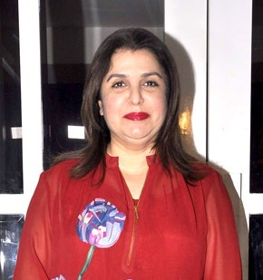 Farah Khan launches Munisha Khatwani's book 'Tarot Predictions 2015'